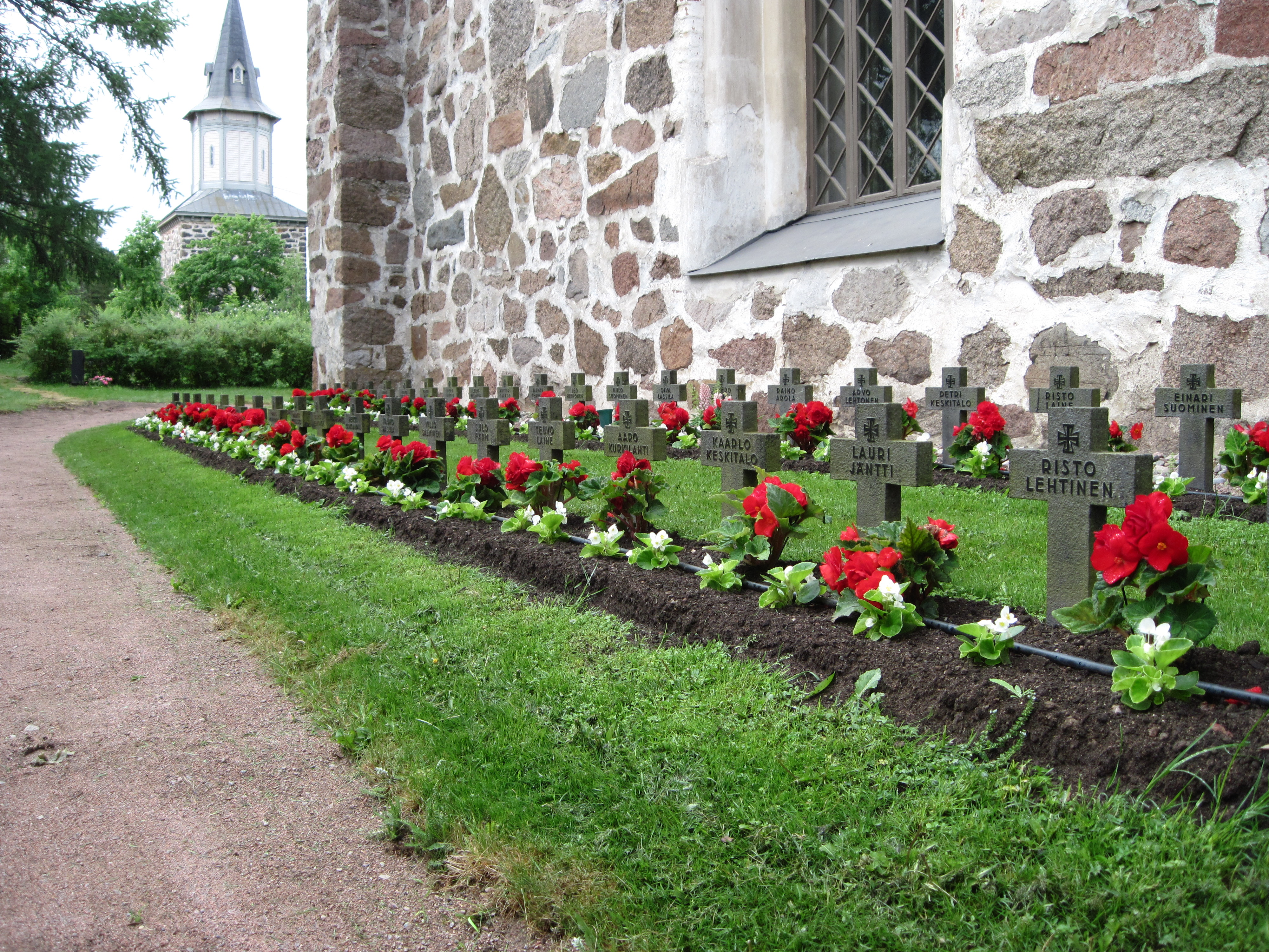 Military cemetary at church in Taivassalo, Finland